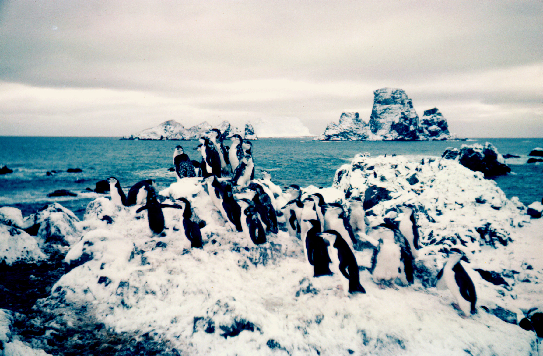 Restoration of File:Adelie penguins at Cape Geddes Laurie Island 1962.jpg as requested Photo Date: March 1962 Photographer: Harley D. Nygren (1924–) DescriptionAmerican mechanical engineerDate of birth 1924 Location of birth Seattle Authority control : Q1585502 VIAF: 70260435 ISNI: 0000 0000 2363 7929 LCCN: n81131401 WorldCat creator QS:P170,Q1585502